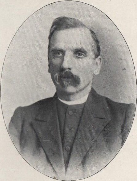 Photograph of Evan Rees (1850-1923), known by the bardic name Dyfed, a Welsh poet who was Archdruid of Wales from 1905 to 1923. The frontispiece and title page of Gwaith Barddonol Dyfed (the works of the poet Dyfed) volume 2, published in 1907 in Cardiff by Evans and Williams. OCLC 55577536